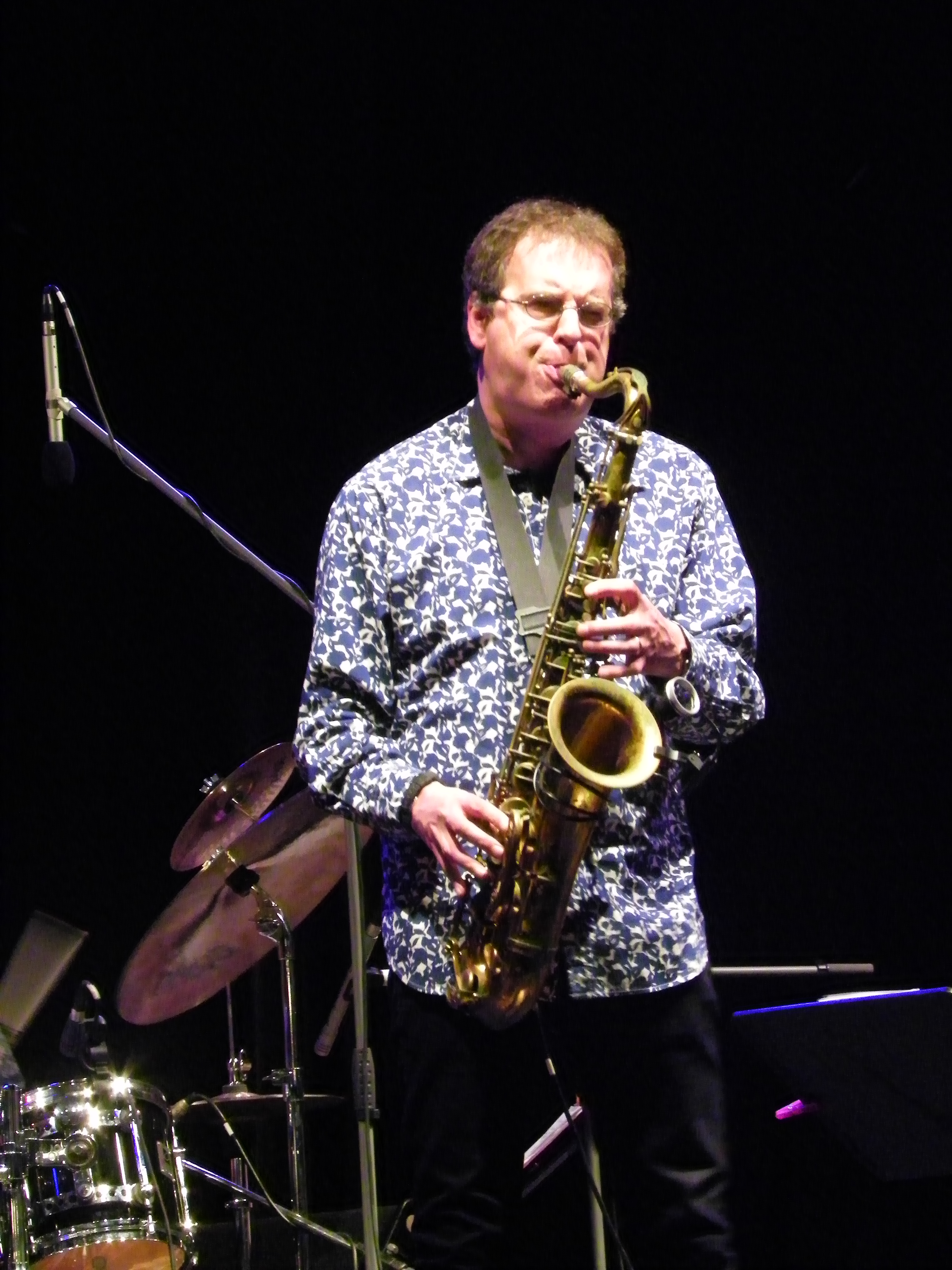 Theo Travis playing with Soft Machine Legacy